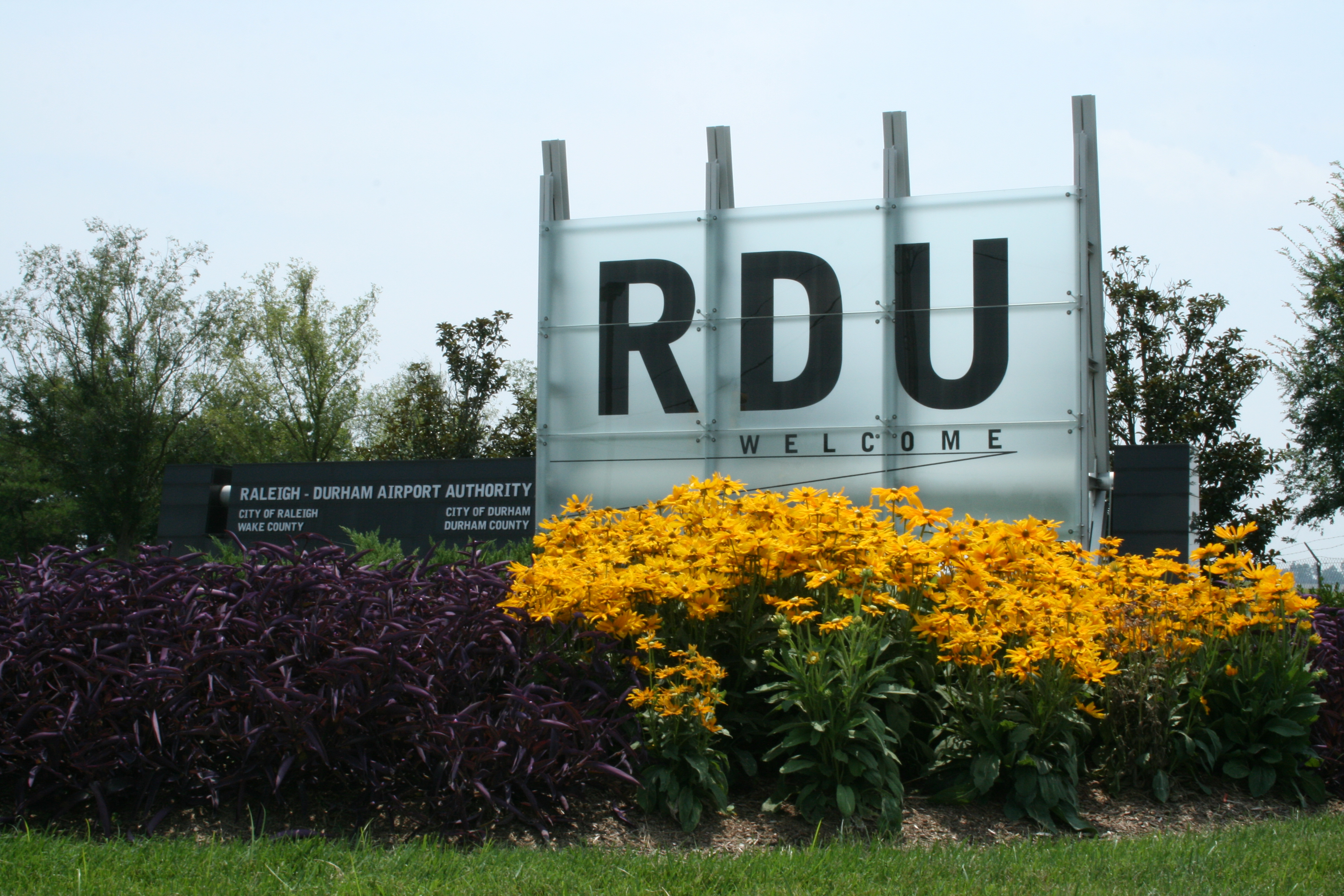 Welcome sign at the Lumley Rd entrance to the Raleigh-Durham International Airport.